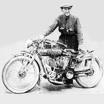 Shot of Edwin "Cannonball" Baker from 1912 after completing his transcontinental journey